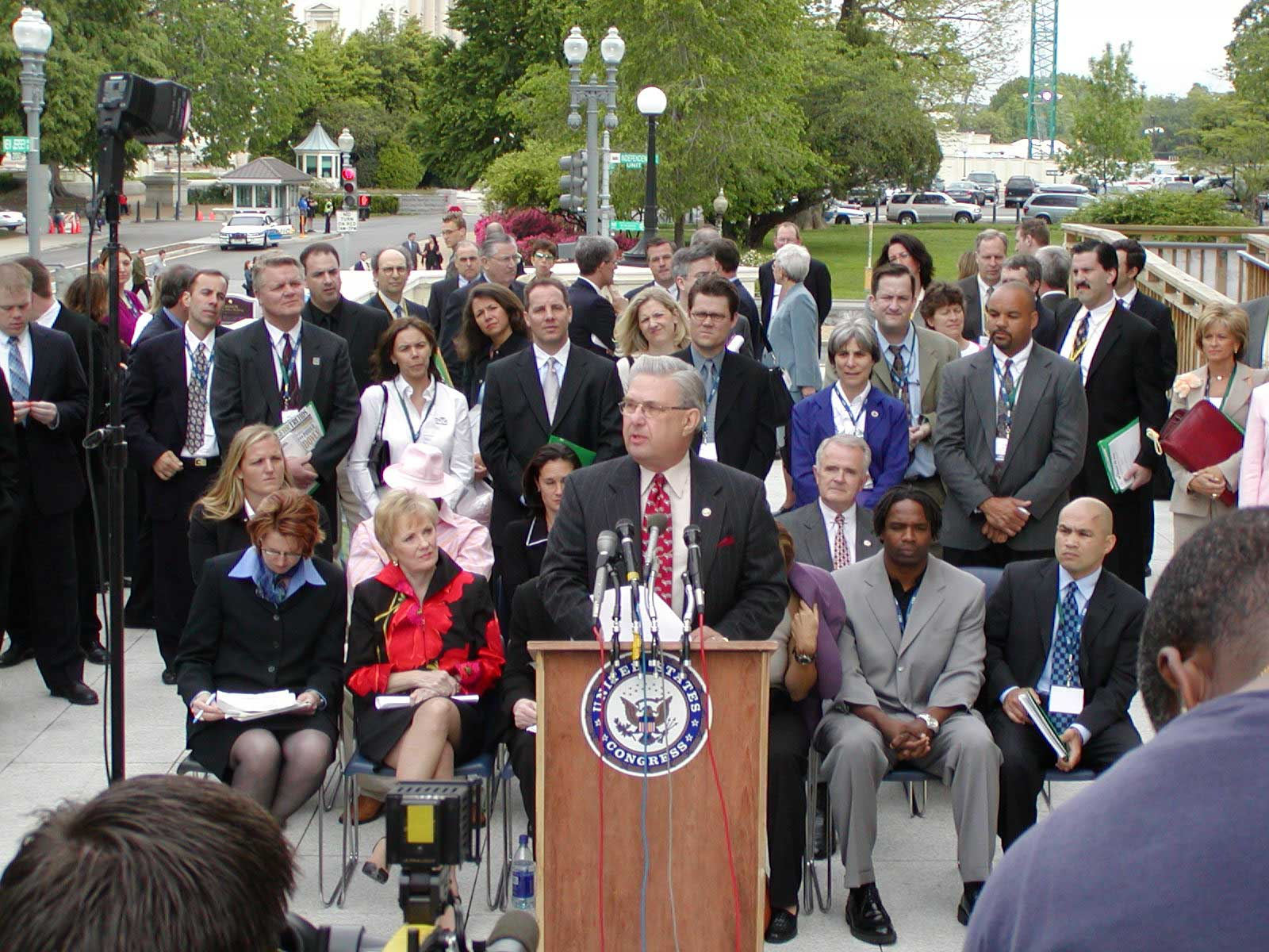 Congressman Peterson speaks to members of the press about the importance of physical education in combating childhood obesity at P.E. 4LIFE Day.